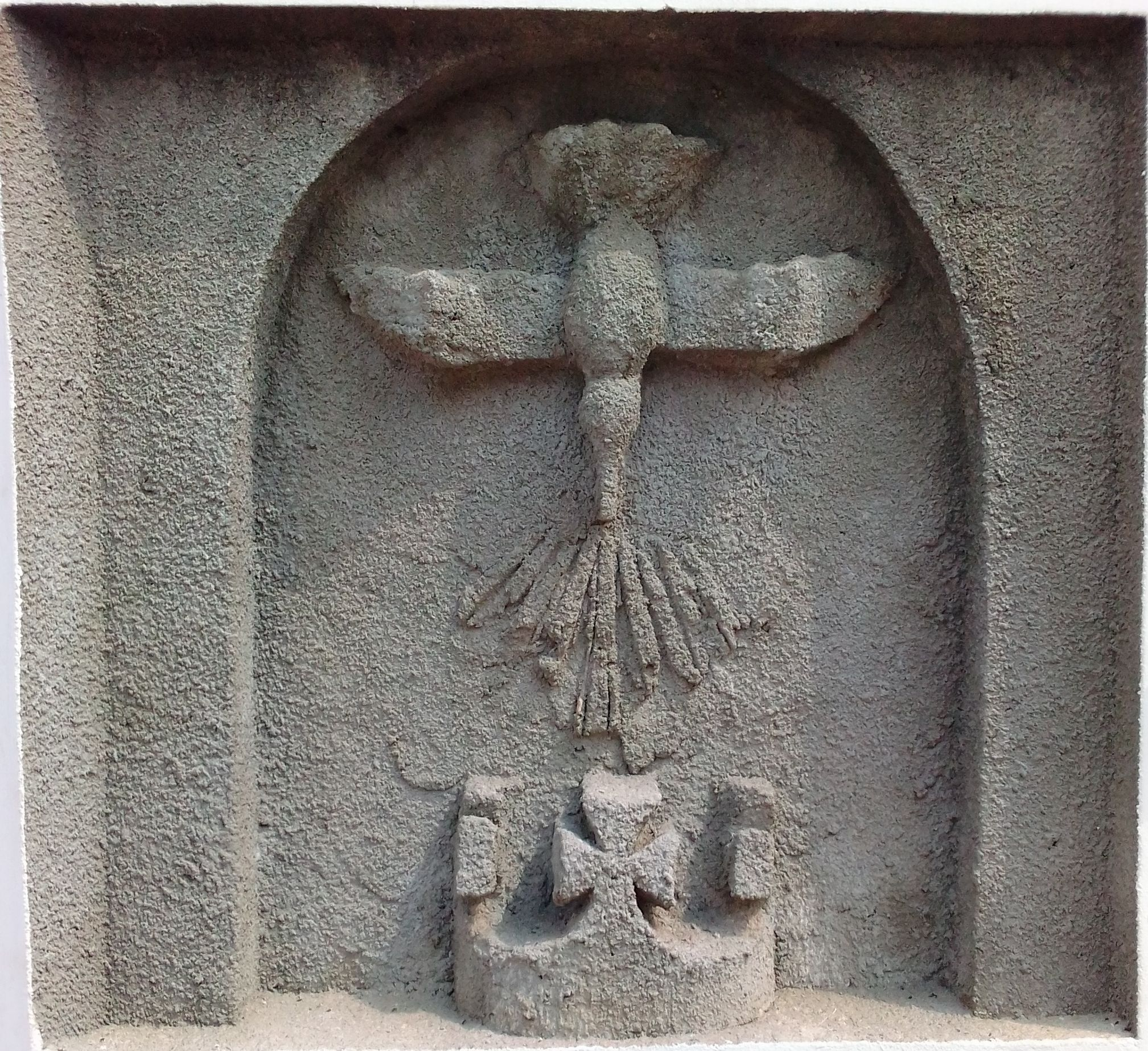 This art is at the fence of palace of Ime-Obi Ezechima, Onitsha